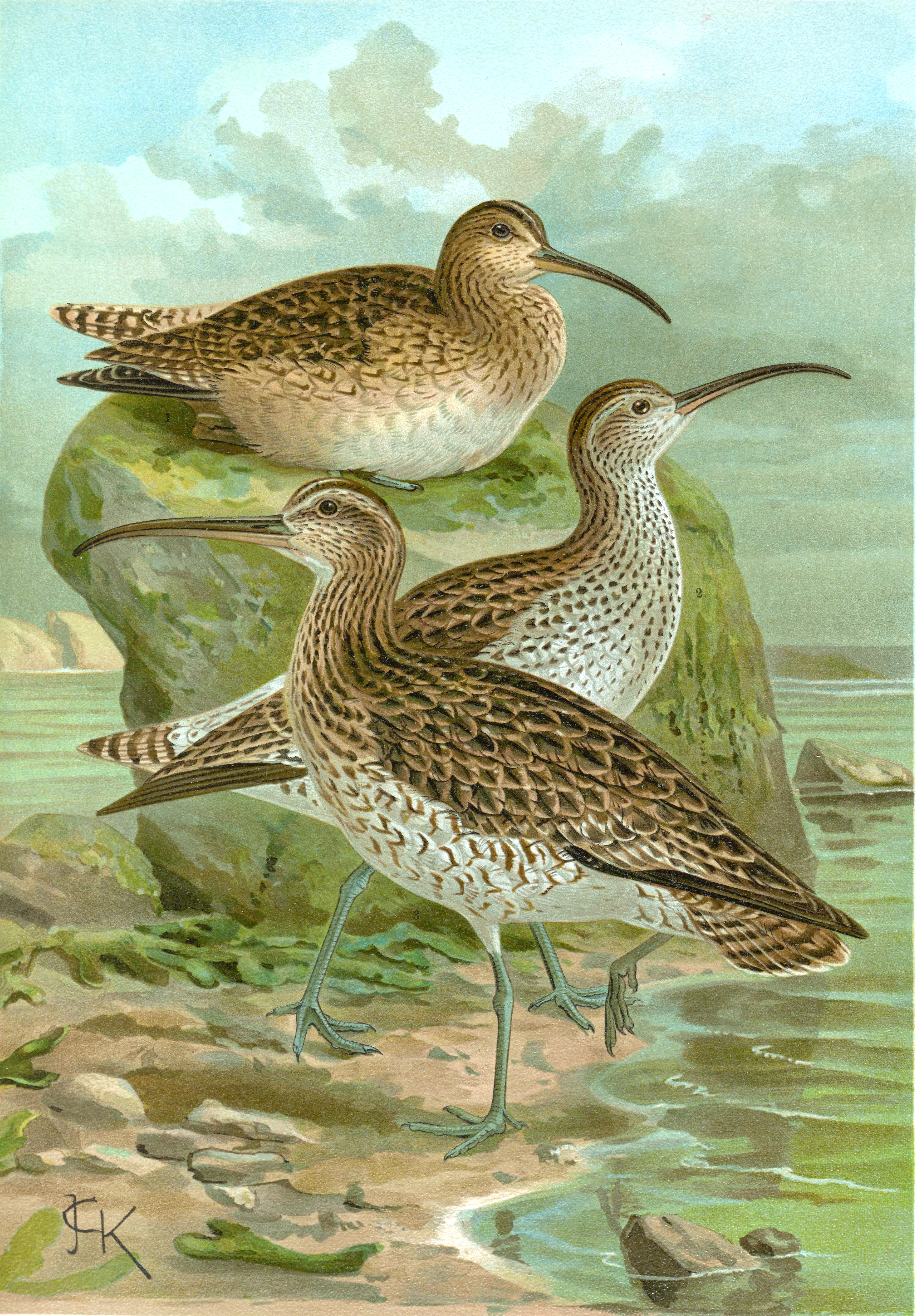 Numenius tenuirostris (Slender-billed Curlew) (center), flanked by two Numenius phaeopus (Whimbrels)